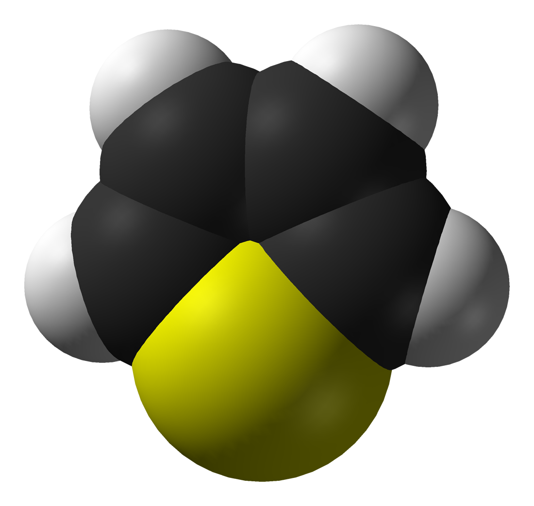 Space-filling model of the thiophene molecule, C4H4S. Structural information (determined by microwave spectroscopy) from CRC Handbook, 88th edition. Image generated in Accelrys DS Visualizer.